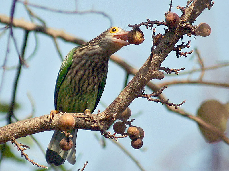 Lineated Barbet Megalaima lineata in Kolkata, West Bengal, India.